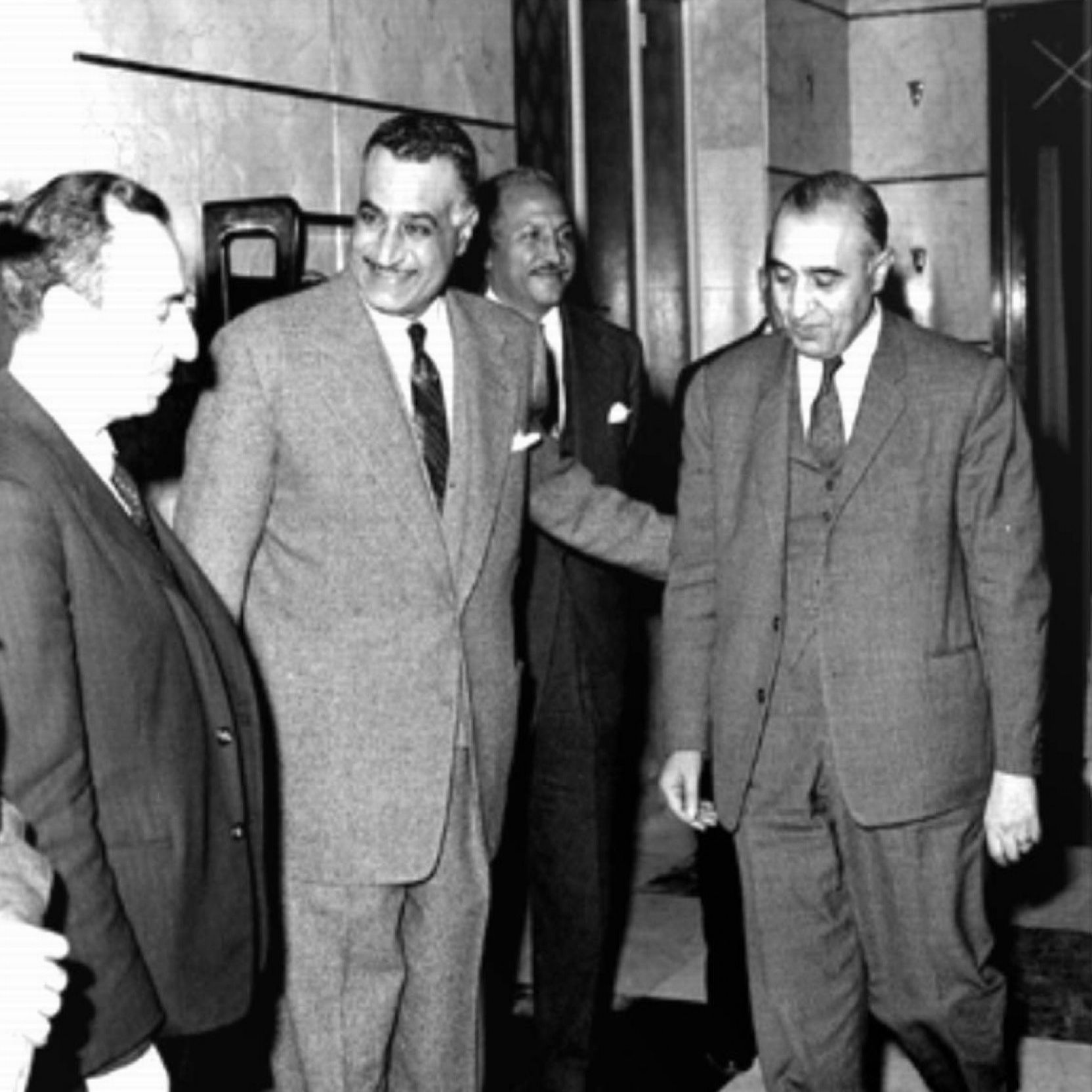 President Gamal Abdul Nasser with Baath Party founders Michel Aflaq and Salah al-Bitar in 1958 / Aflaq (left) and Bitar were prime advocates of the Syrian-Egyptian Union and dissolved their party at will for the sake of the United Arab Republic (UAR)